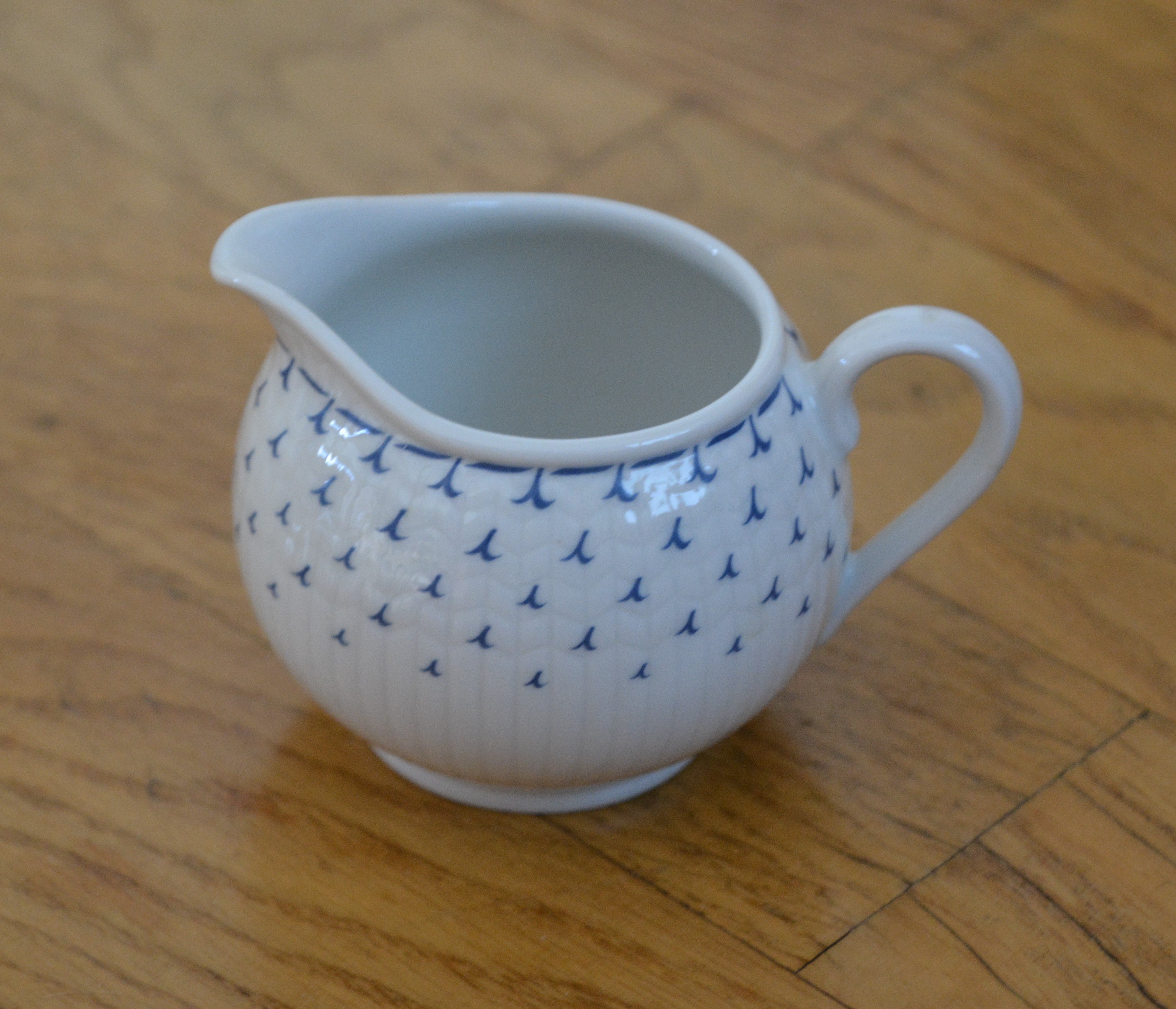 Gräddsnipa, Blå vinge, Rörstrands